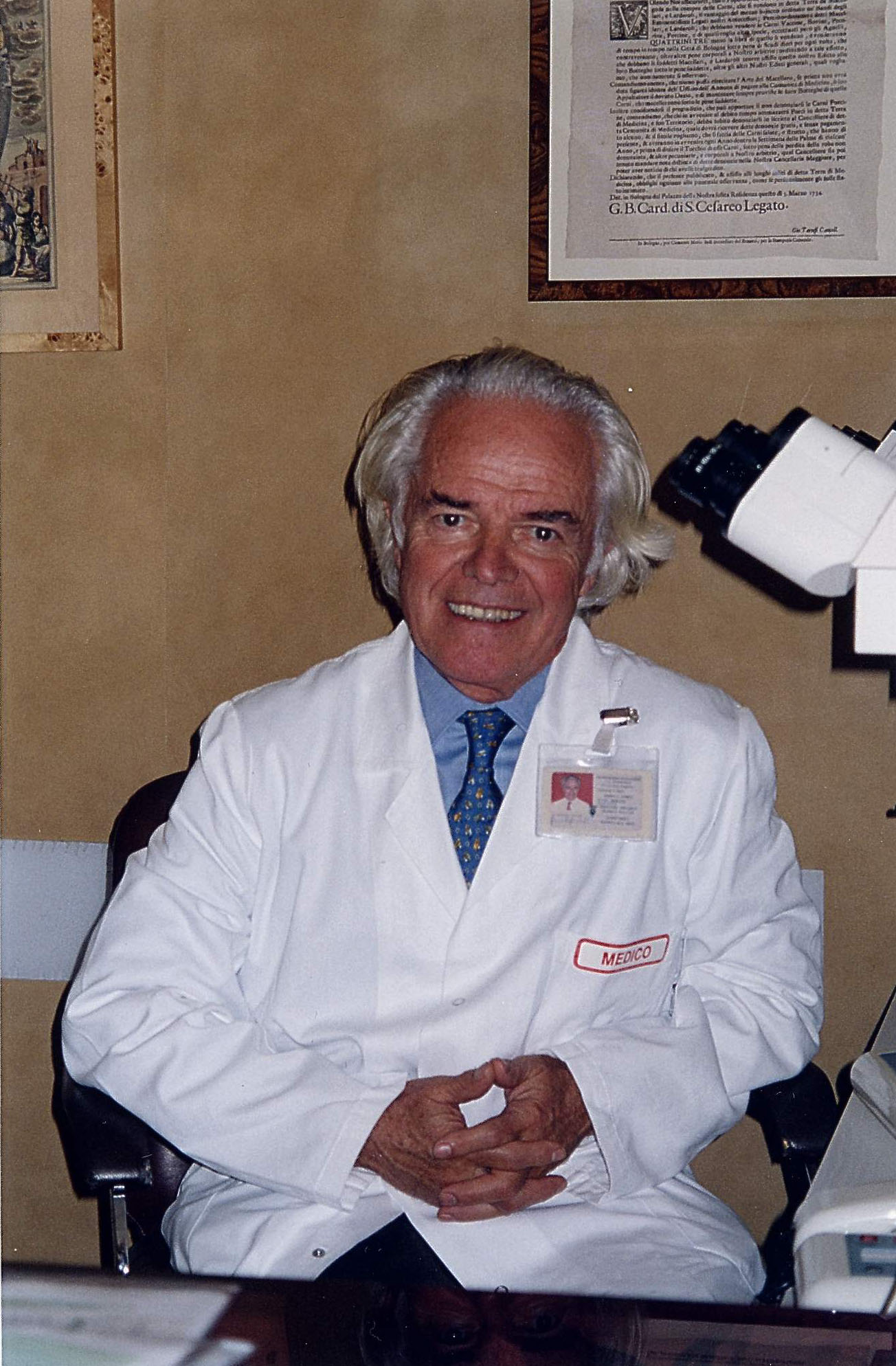 Pictures of Franco Mandelli